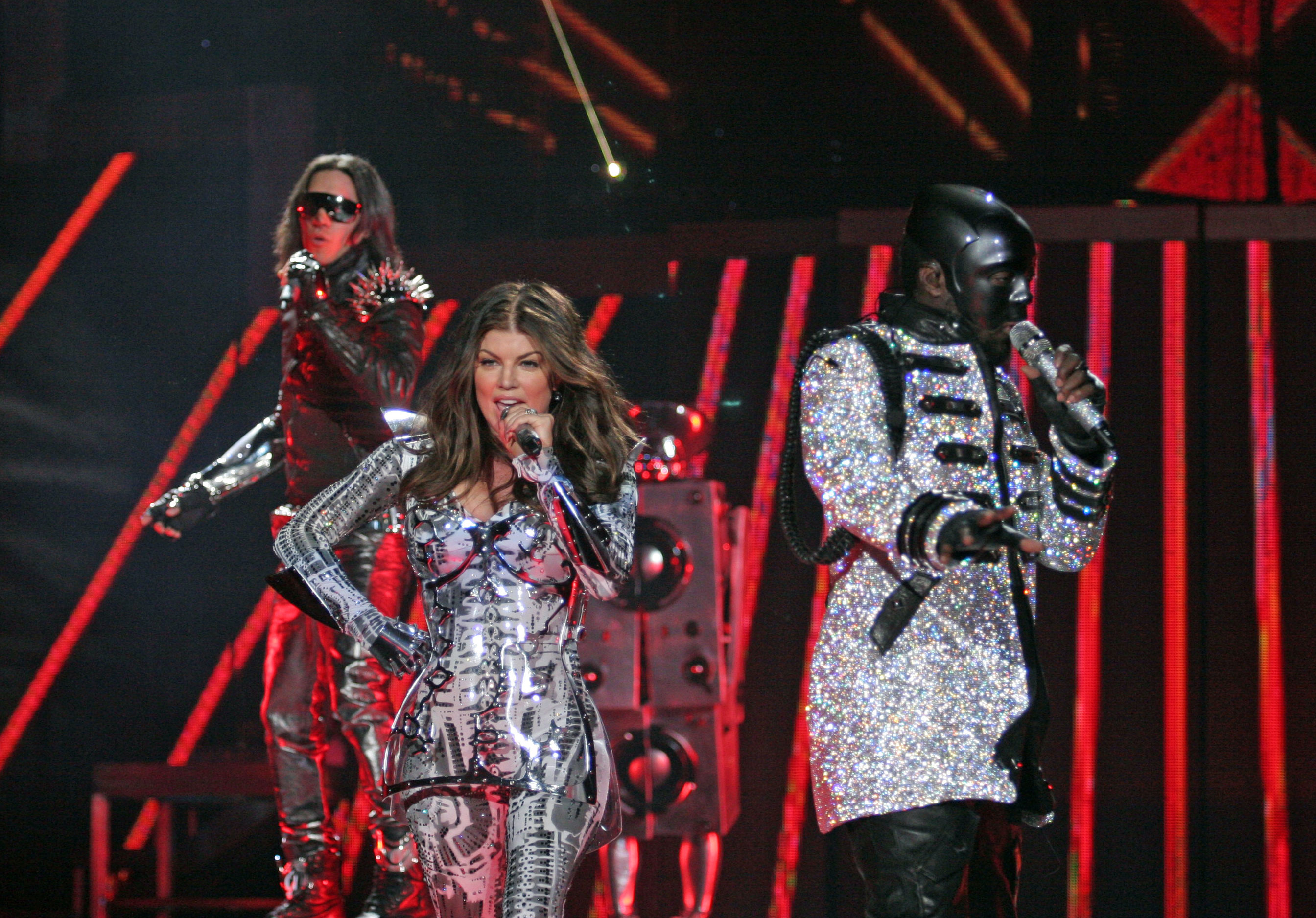 Black Eyed Peas